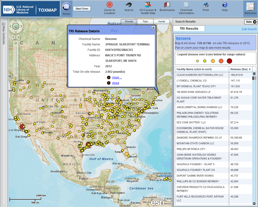 Benzene on-site releases, all mediums, lower 48 States, reported to EPA TRI Program, 2012, shown by NLM's TOXMAP